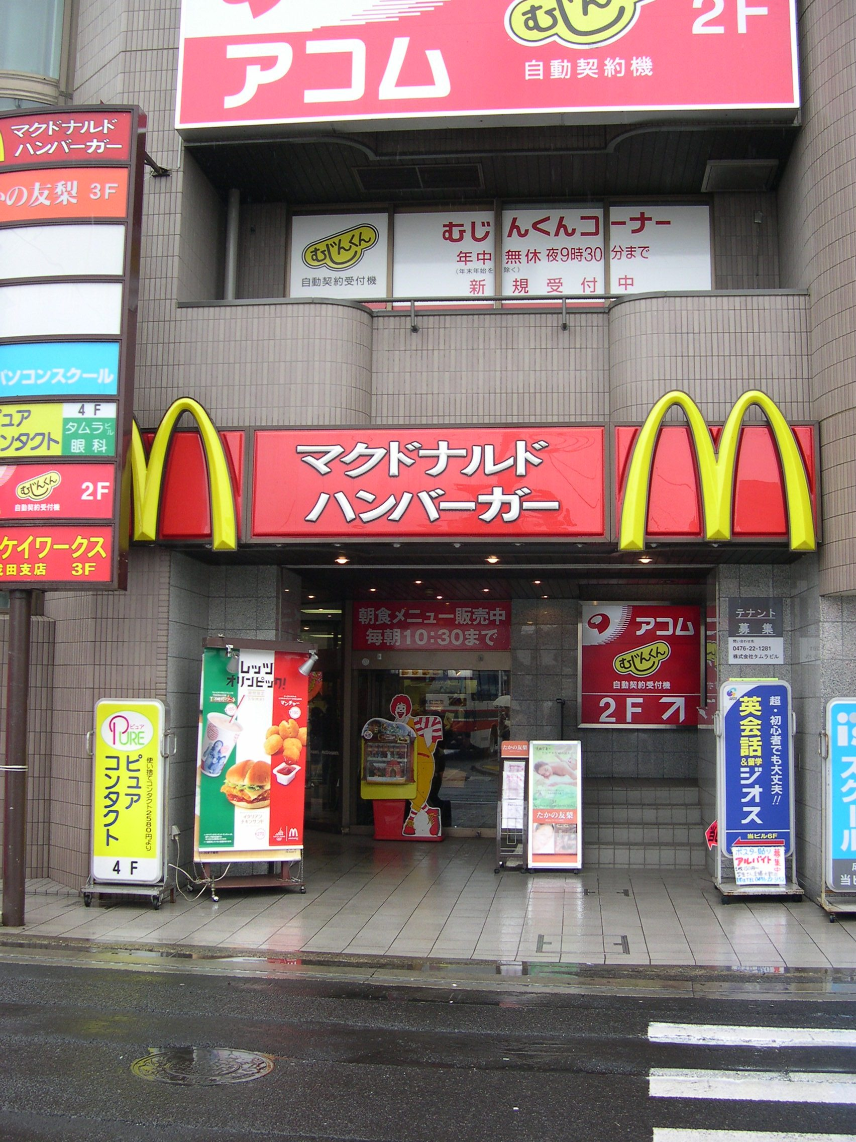 McDonald's in Narita, Japan